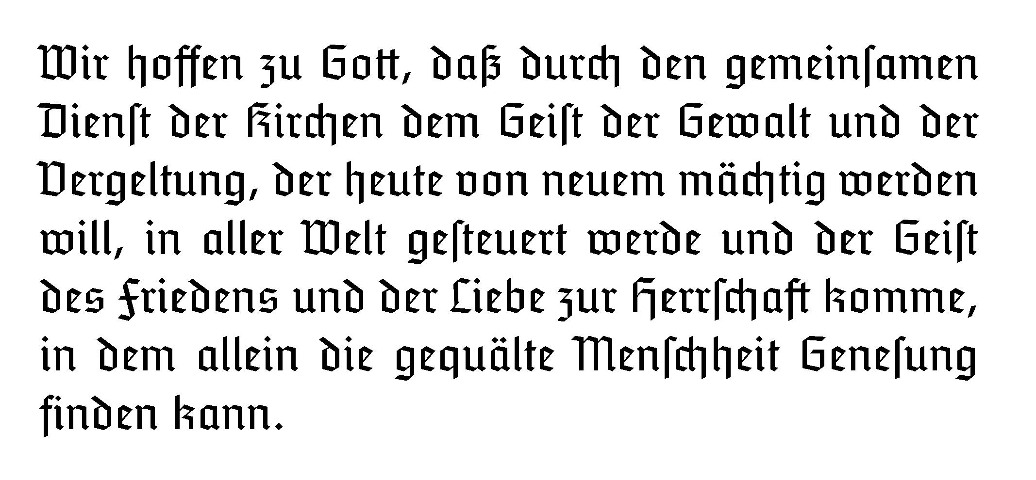 Sample text for the font "Tannenberg".